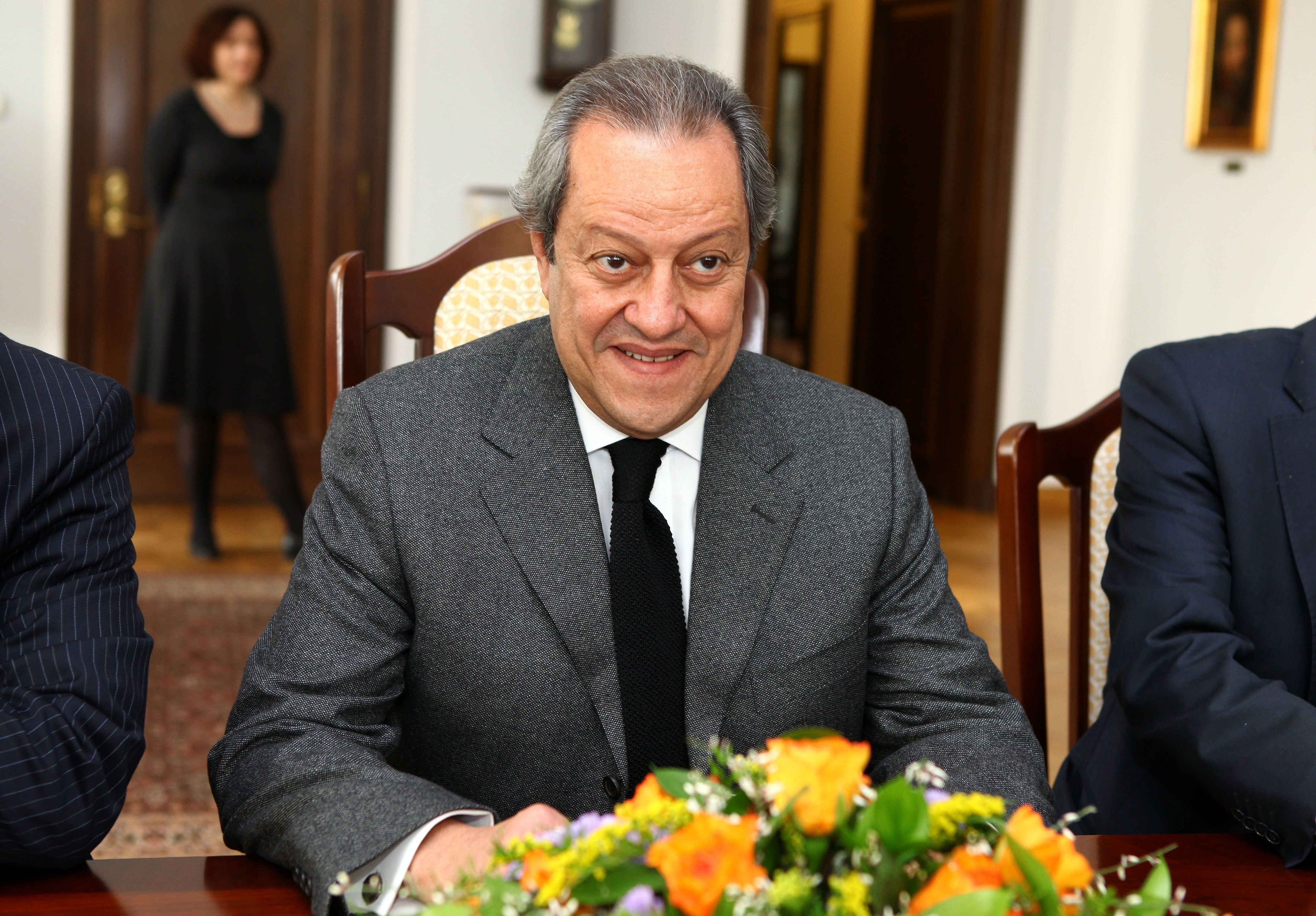 Egypt's Minister of Tourism Mounir Fakhry Abdel Nour in the Polish Senate